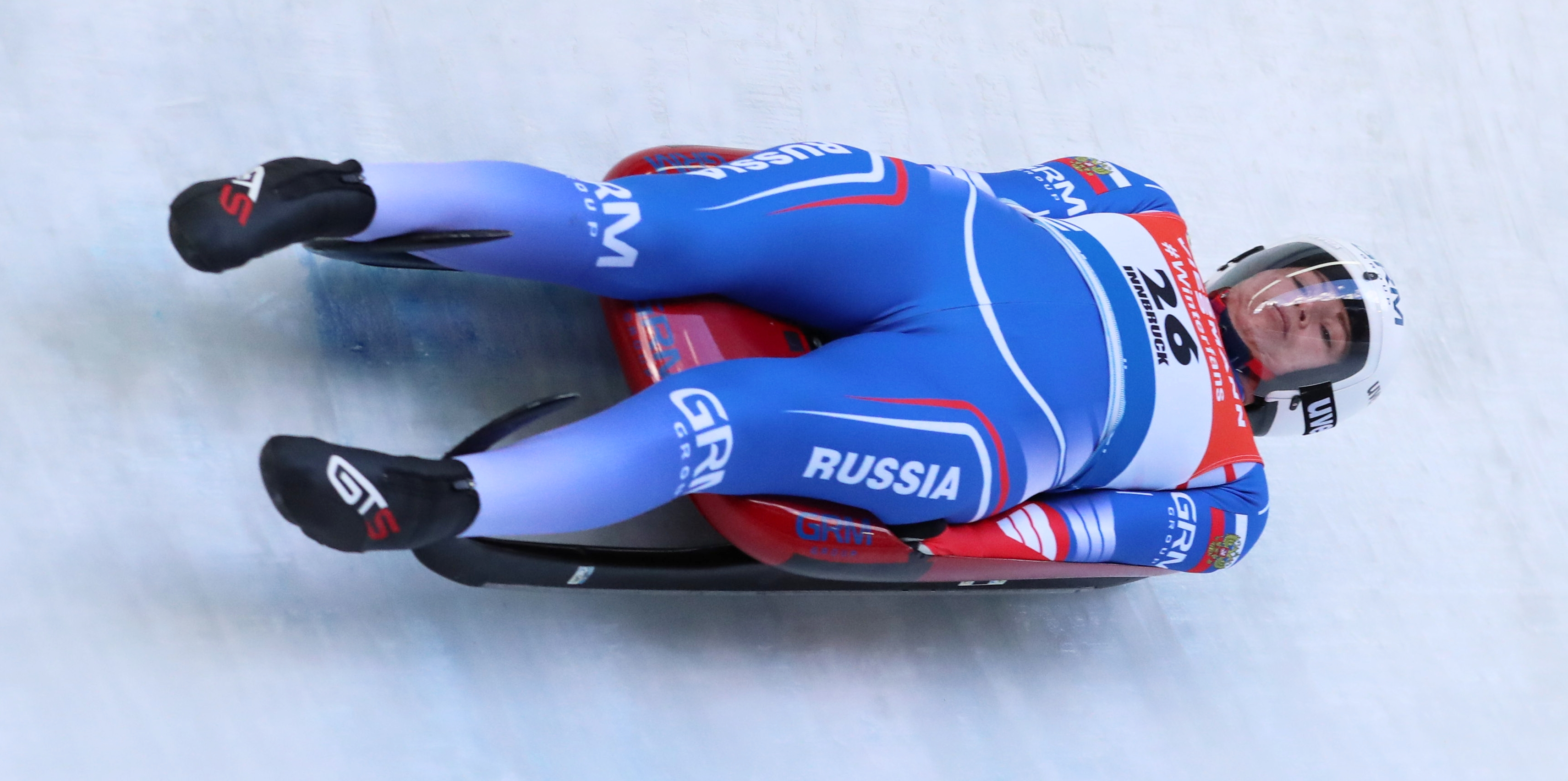 Women's World Cup race at the 2018/19 Luge World Cup in Innsbruck-Igls